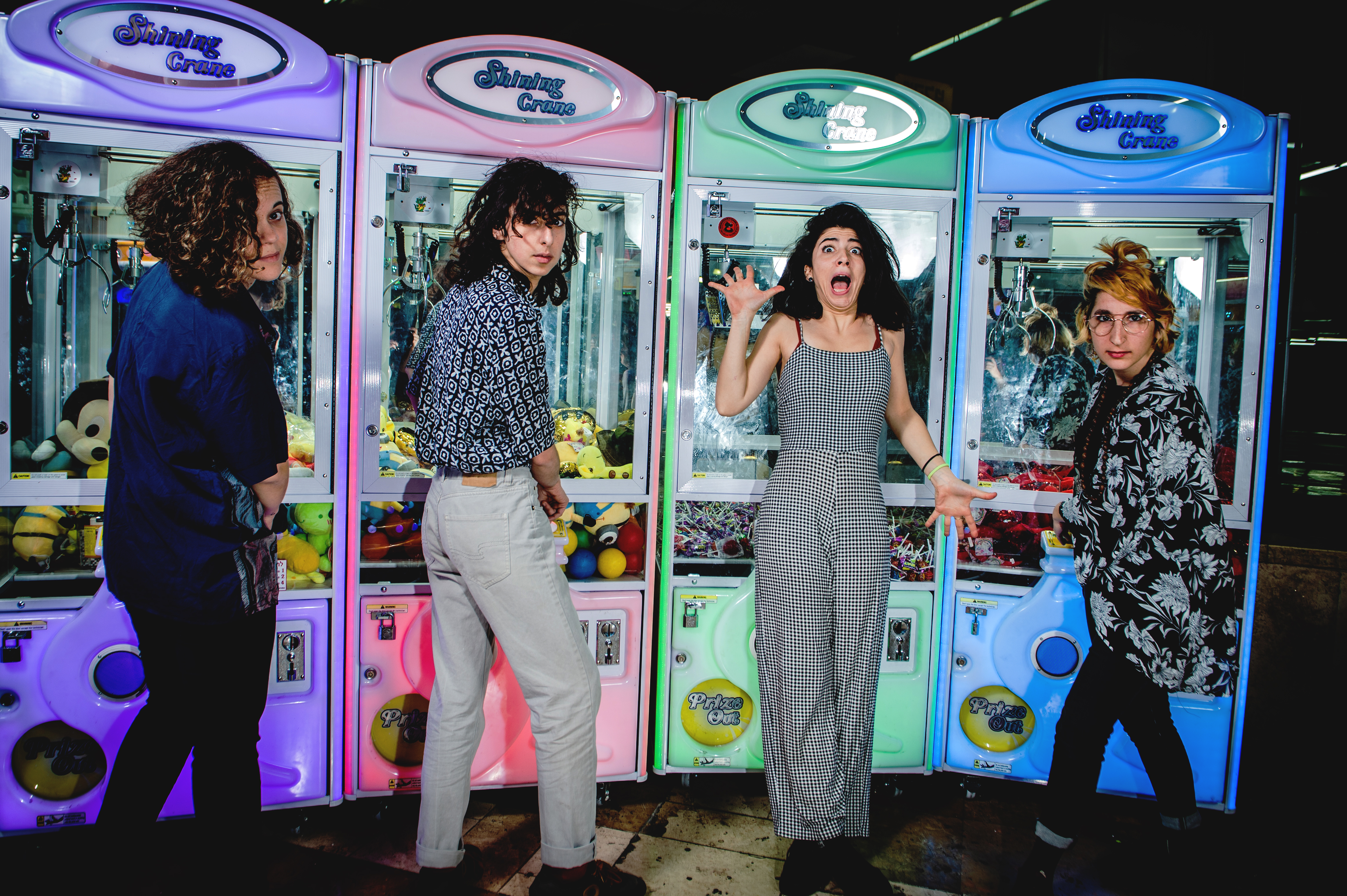 Haze'evot, 2019